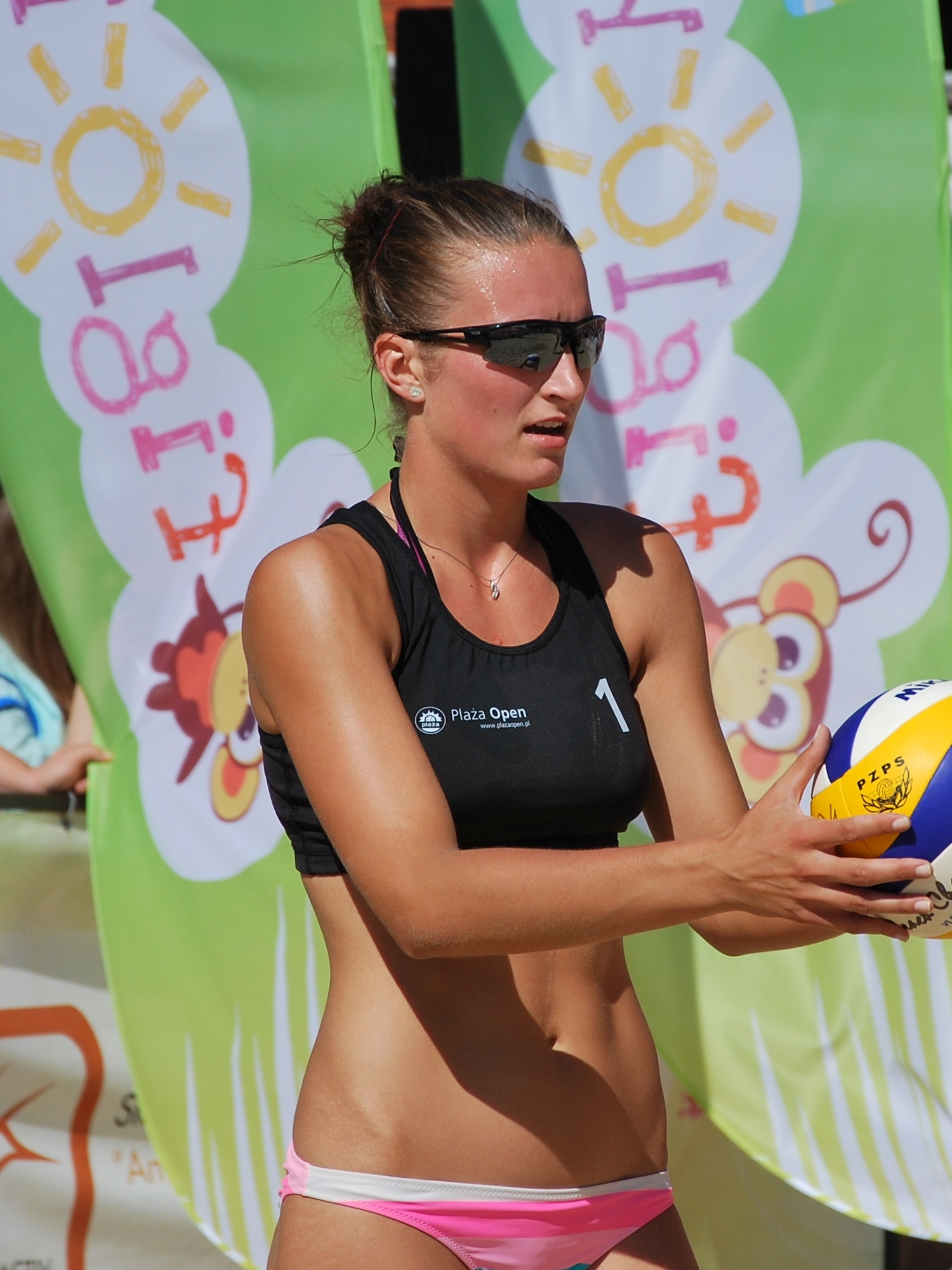 Daria Paszek, Plaża Open Łódź 2013